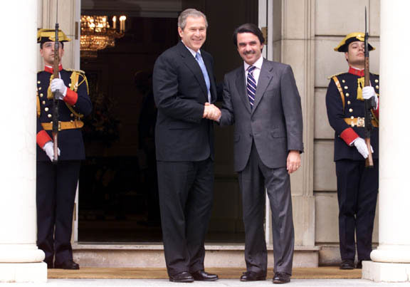 Joint Press Conference with President George W. Bush and President Jose Maria Aznar - Madrid, Spain